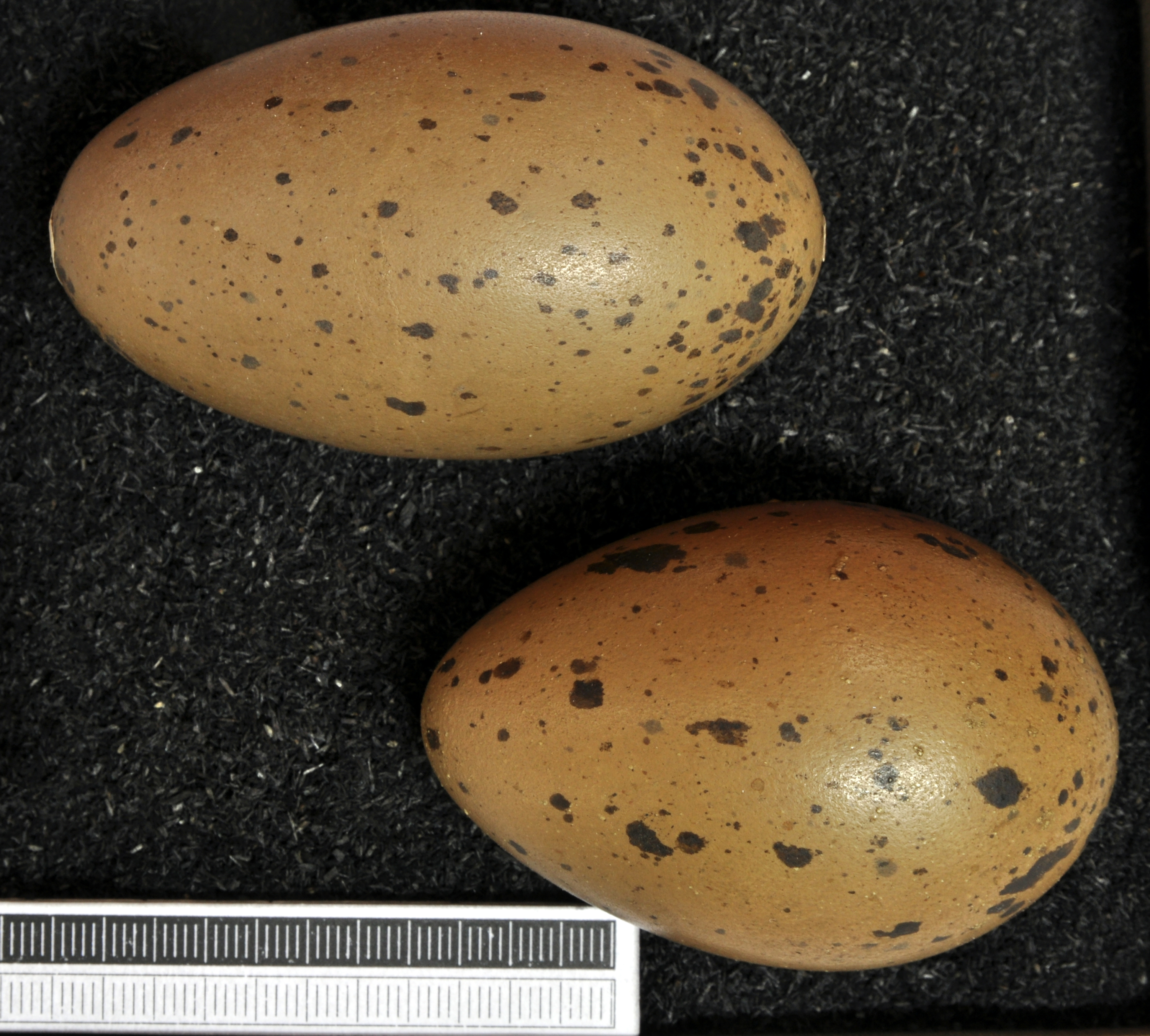 Red-throated loon Gavia stellata , egg, Coll. Museum Wiesbaden